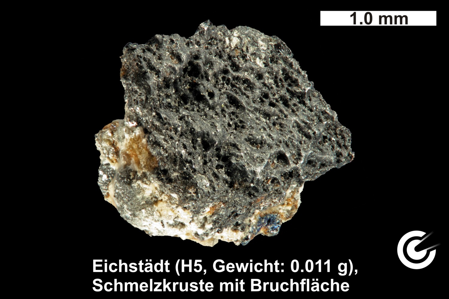 Fusion crust of Eichstädt meteorite.